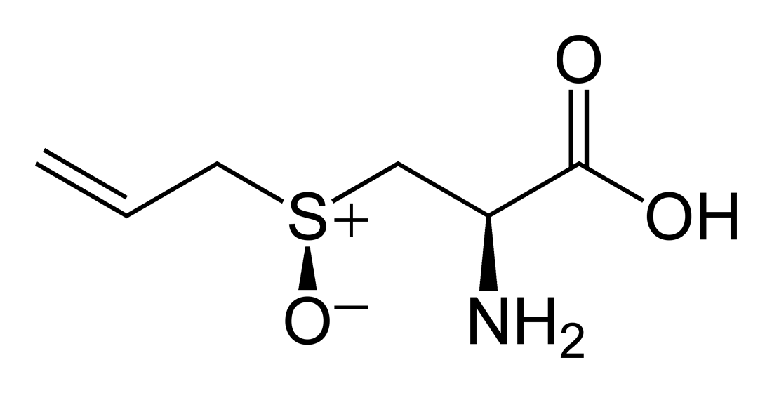 Skeletal formula of L-alliin